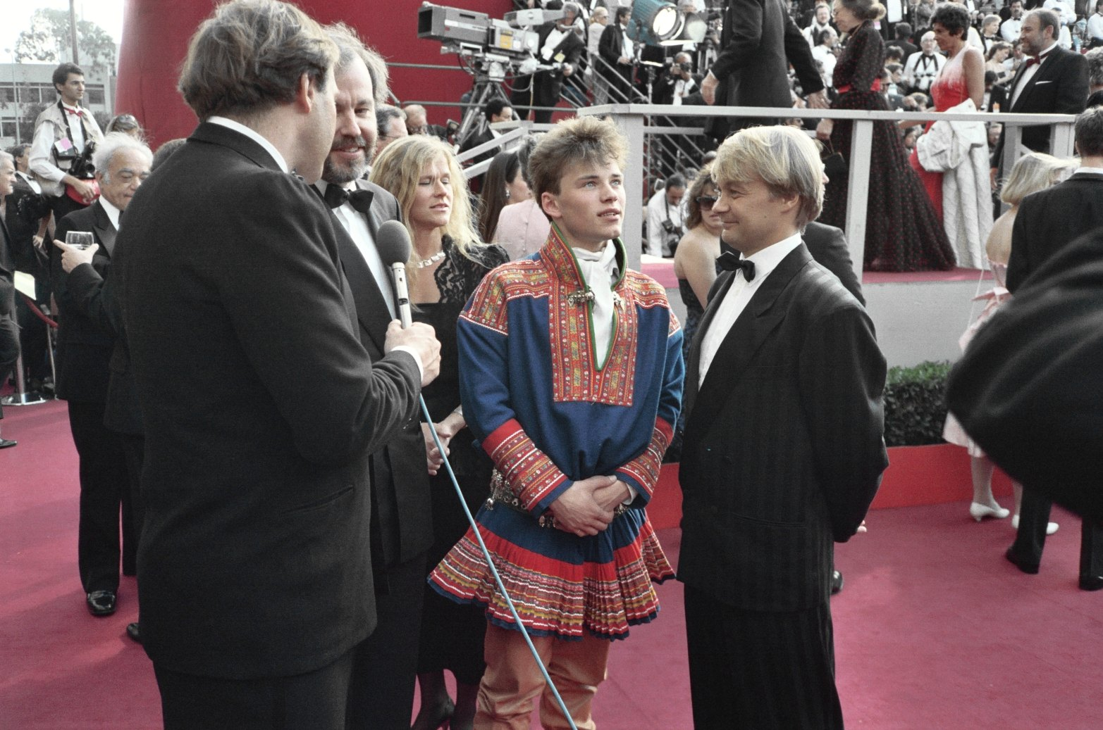 1988 Academy Awards - Mikkel Gaup (in Sami costume) and Nils Gaup (right), nominated for best foreign film Pathfinder. NOTE: Permission granted to copy, publish, broadcast or post any of my photos, but please credit "photo by Alan Light" if you can. Thanks. Scanned from the original 35MM film negative.